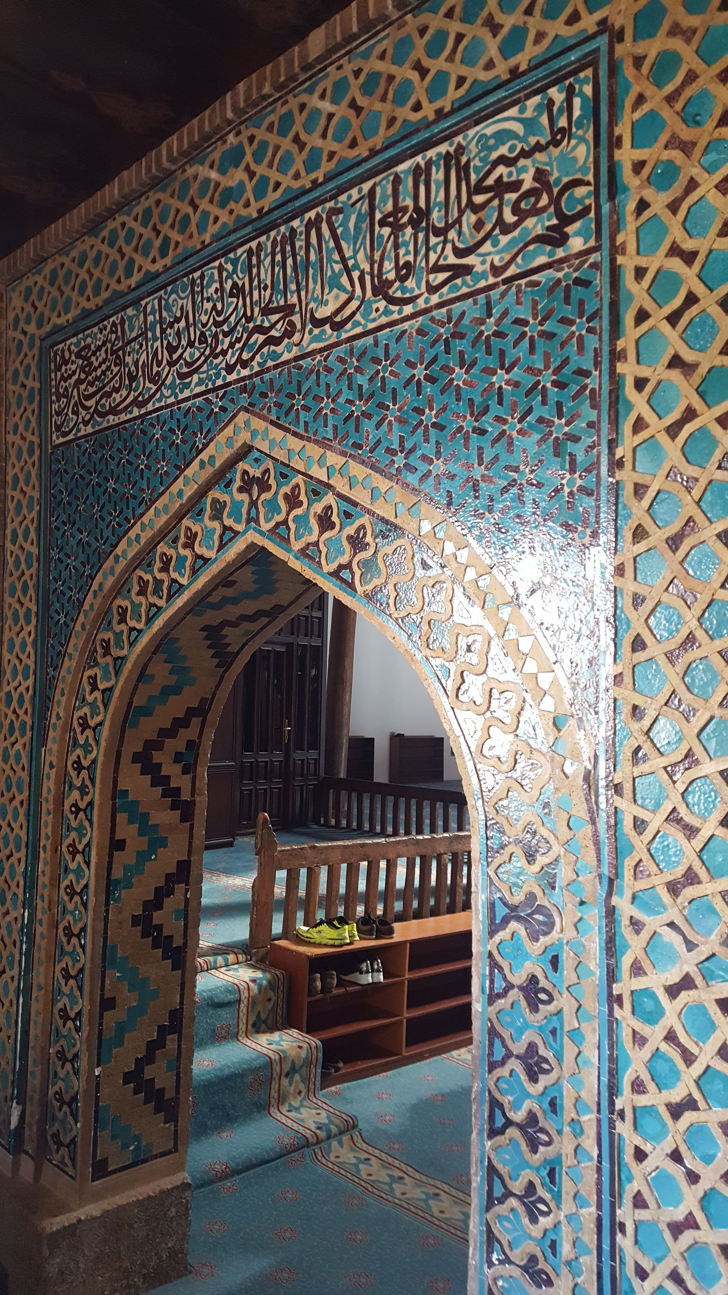 Entrance of Esrefoglu Mosque, Beysehir, Konya, Turkey. It is the biggest and best preserved one of everal wooden columned and roofed mosques in Turkey .